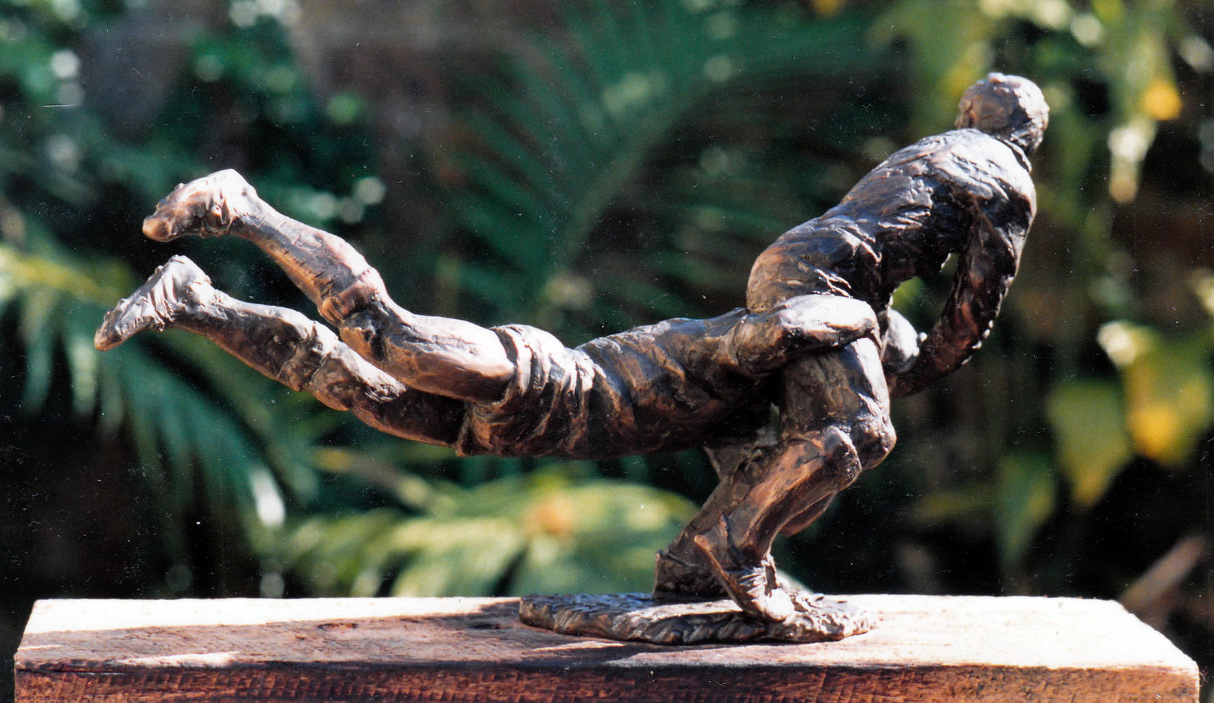 The bronze Trophée des Bicentenaires was commissioned by the French Rugby Union to celebrate the bi-centenaries of Australia and France, in 1988 and 1989 respectively. The sculpture was made by the Australian sculptor Diana Webber.